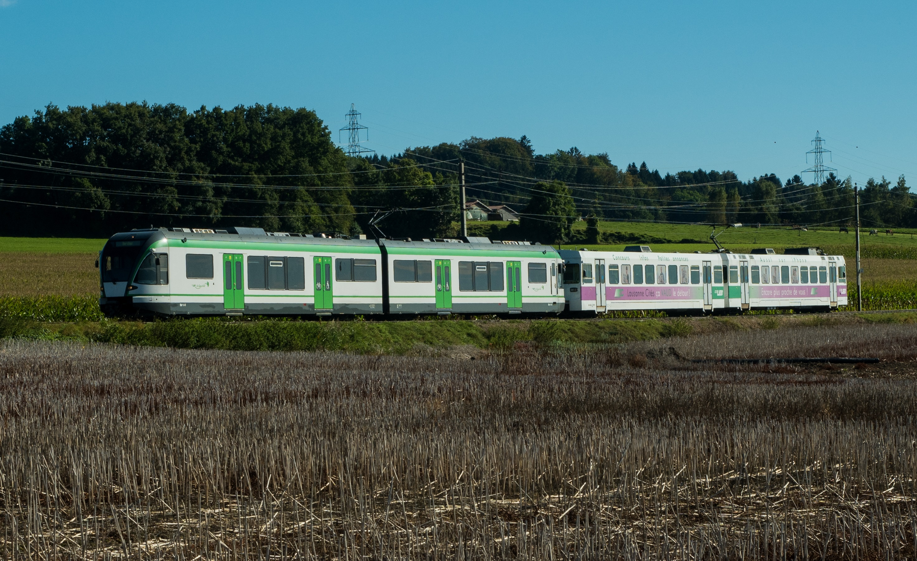 Promenade LEB 03.10.2016